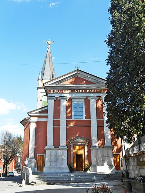 facade